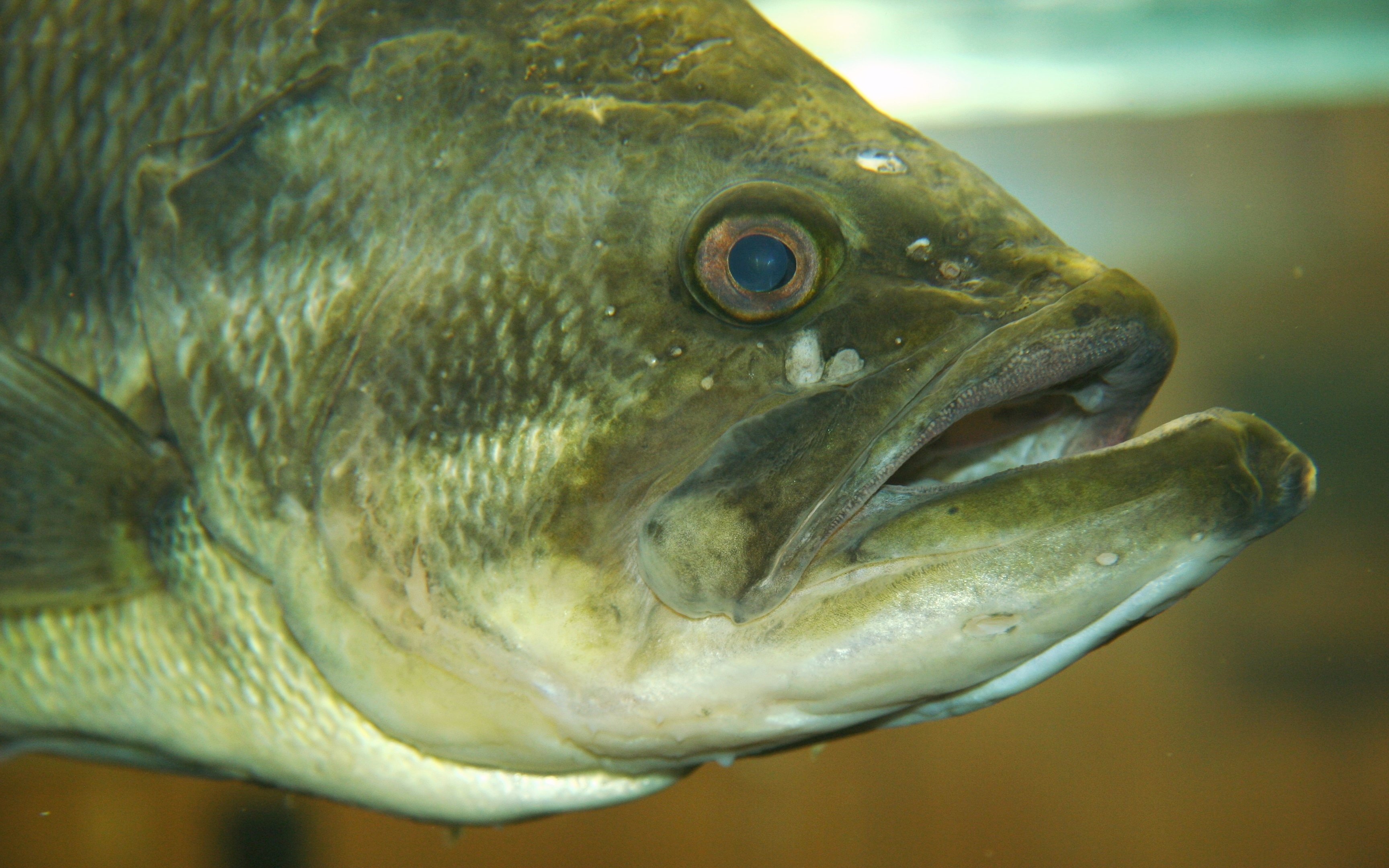 Largemouth bass (Micropterus salmoides) in a glass aquarium at the Quarry Hill Nature Center in Rochester, Minnesota